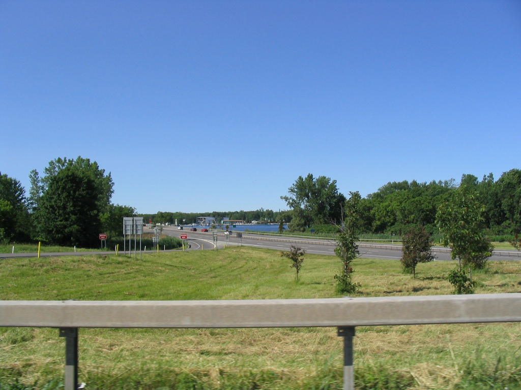 photo of Interstate 81 going through Brewerton, NY, taken by me on June 23, 2004